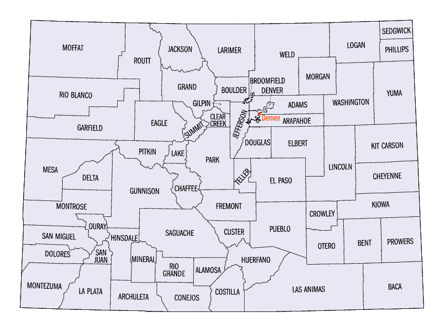 Map showing 64 counties of Colorado